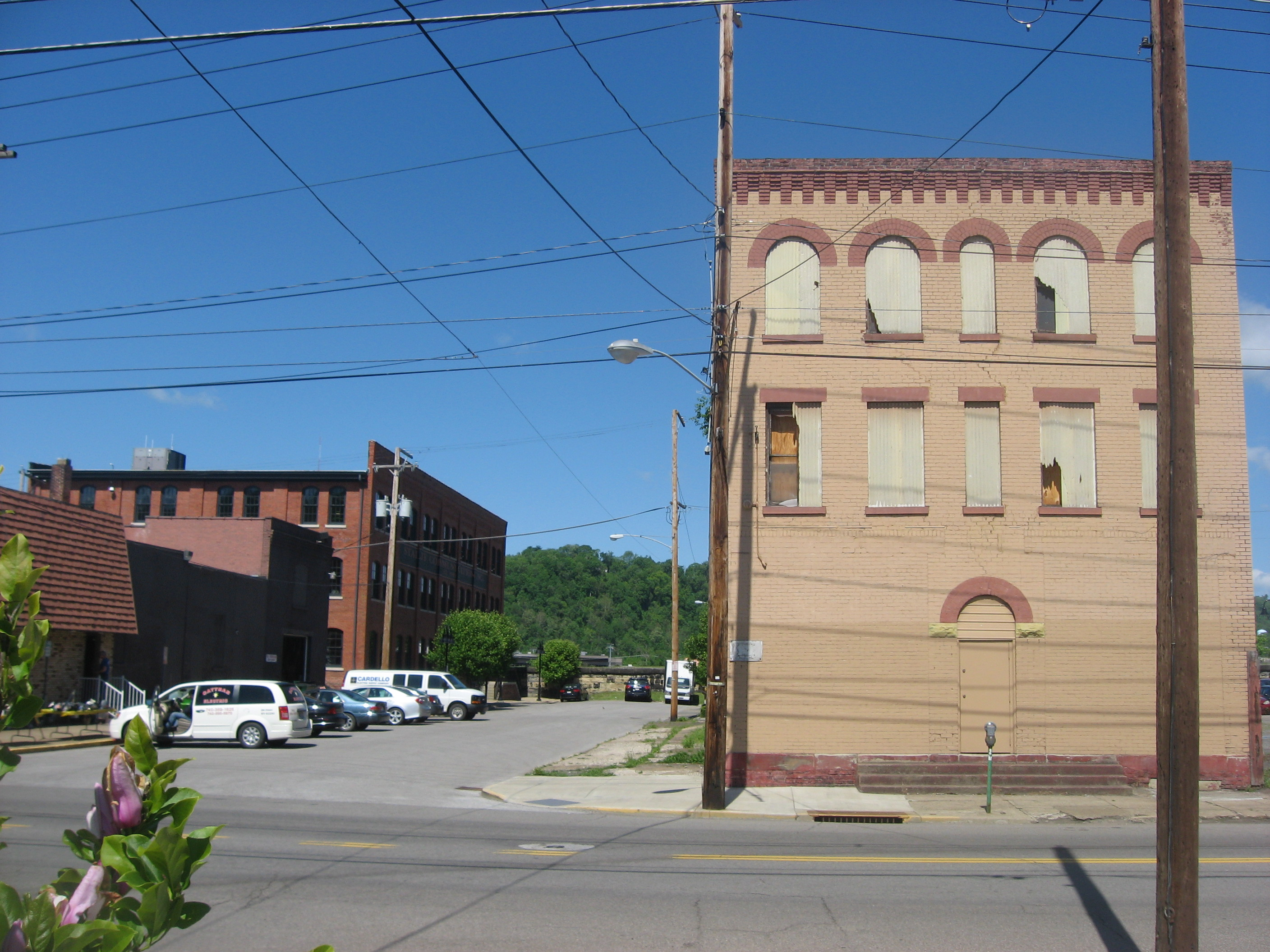 Buildings along Twelfth Street west of Main Street in Wheeling, West Virginia, United States. They are part of the Wheeling Warehouse Historic District, a historic district that is listed on the National Register of Historic Places.